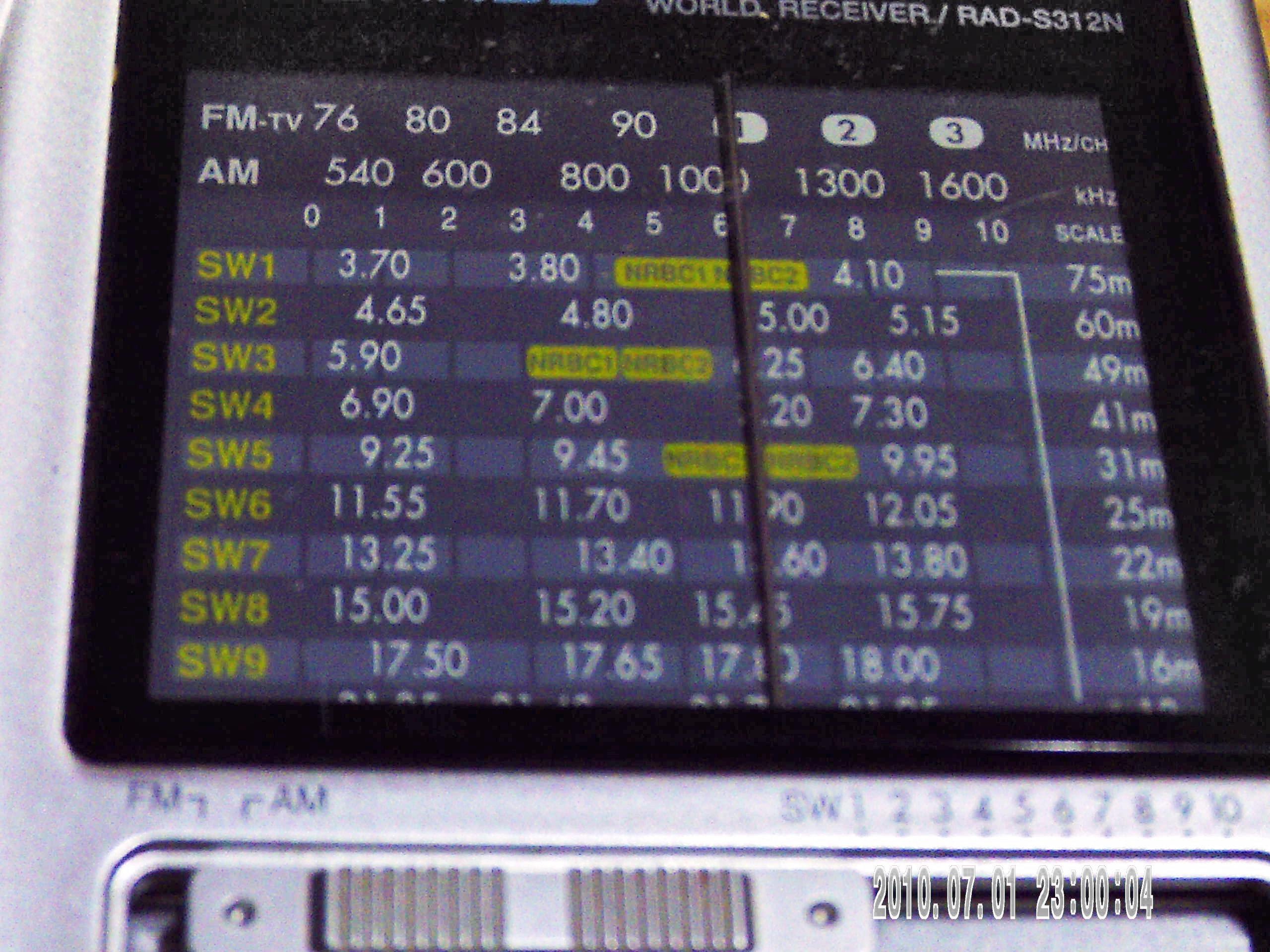 Nikkei Radio Receiver